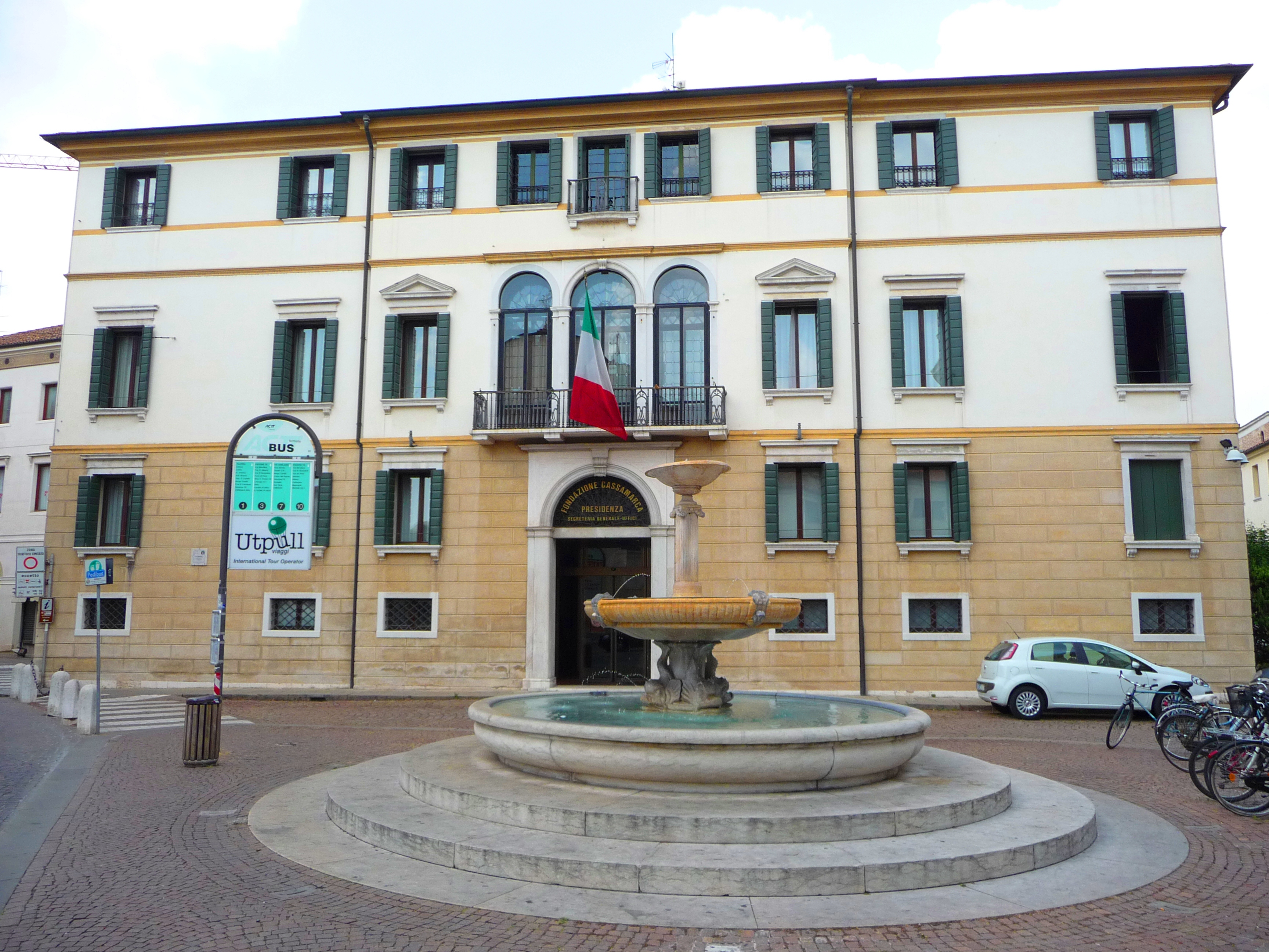 Ca Spineda and Fountain in Piazza San Leonardo, Treviso (IT)